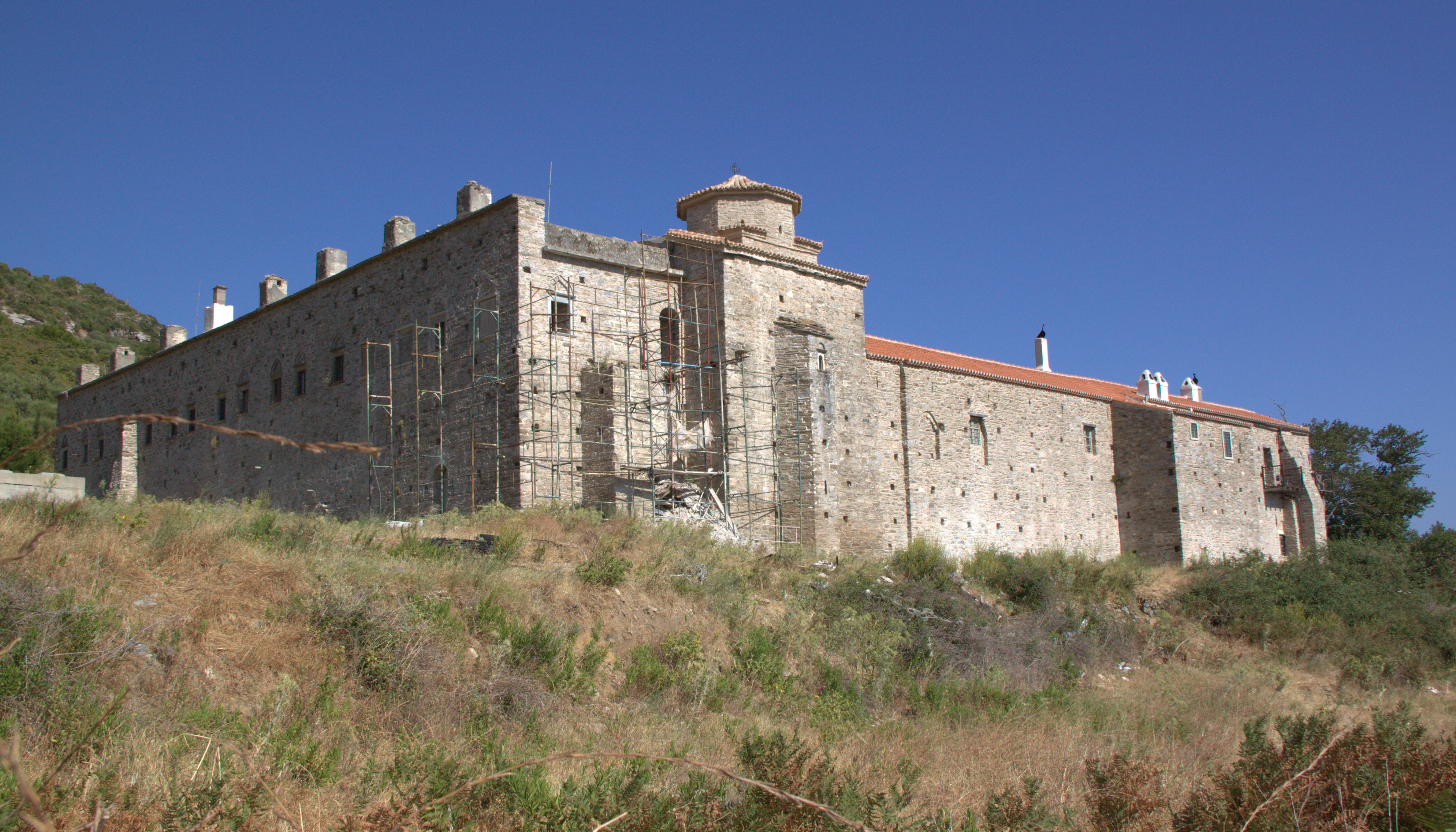 Vronda monastery, Samos, Greece